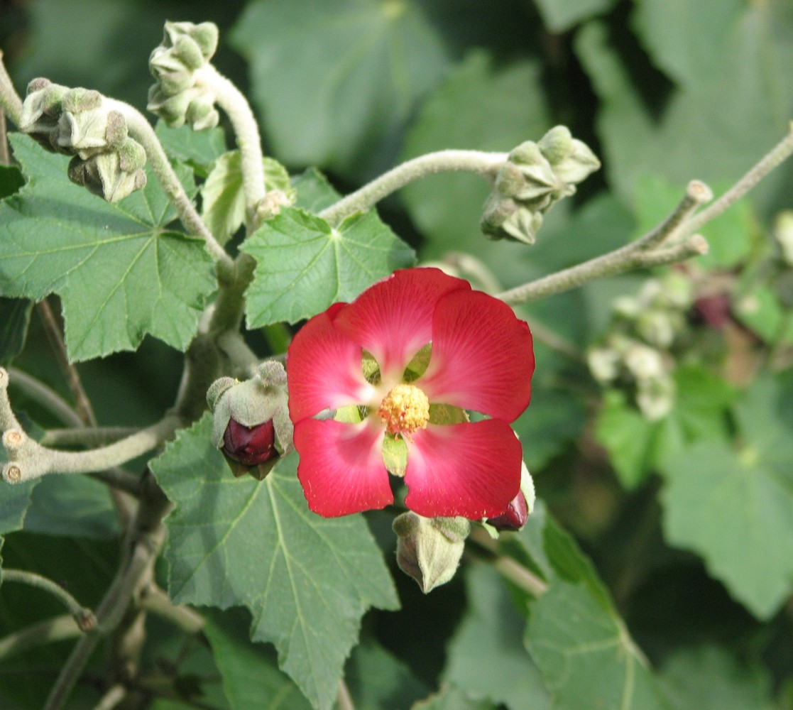 Phymosia umbellata (unlabelled), Royal Botanic Gardens, Melbourne